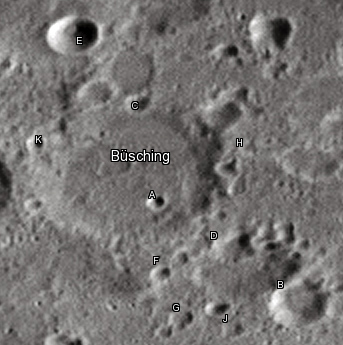 Busching lunar crater as seen from Earth with satellite craters labeled